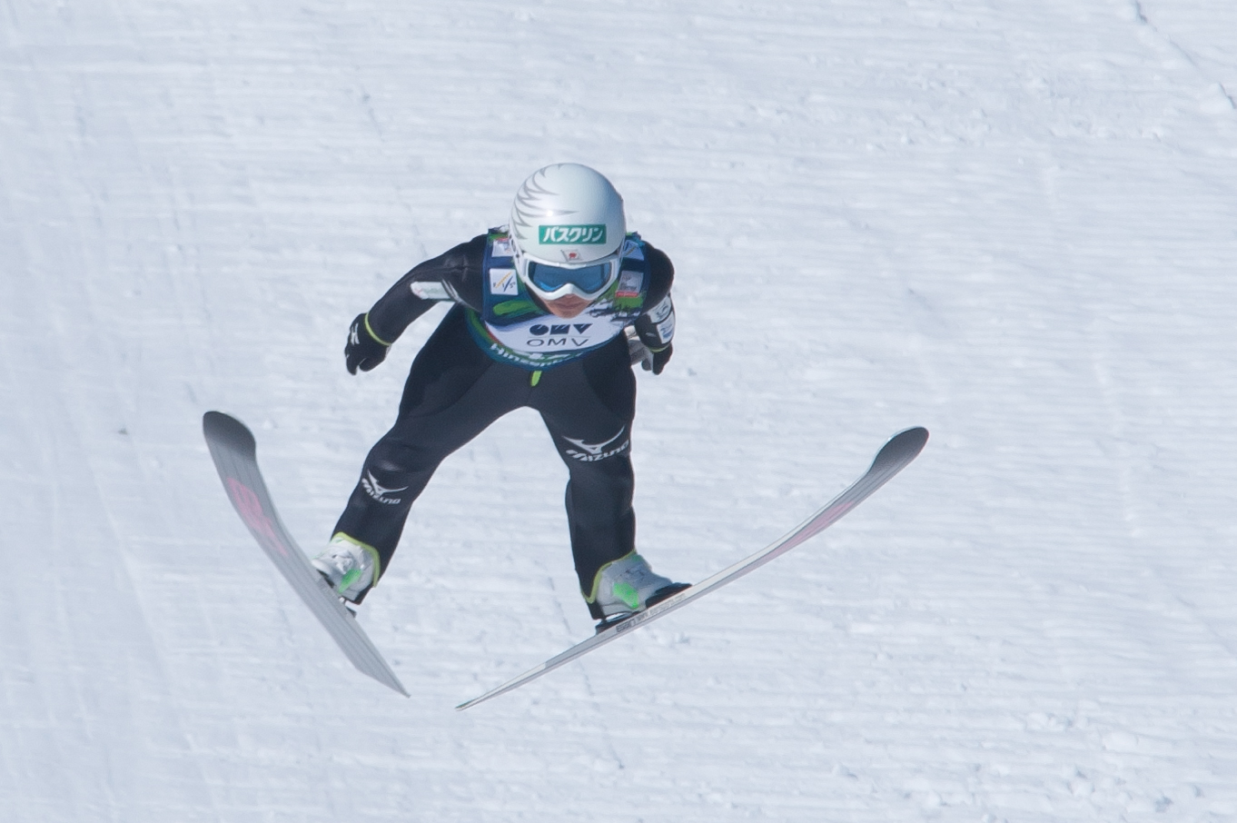 FIS Ski Jumping World Cup Hinzenbach Sun 1 Feb 2015